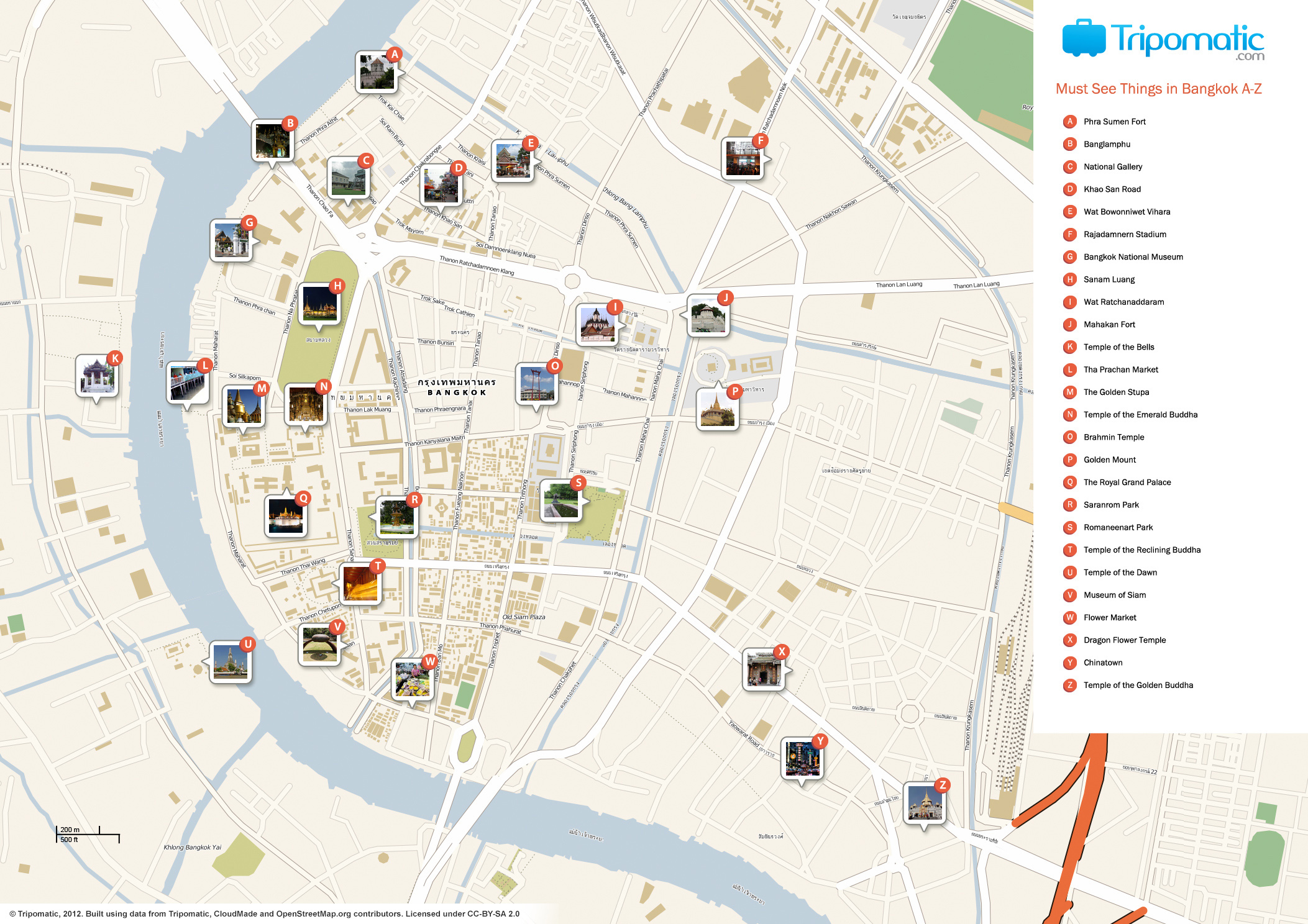 Printable tourist map showing the main attractions of Bangkok